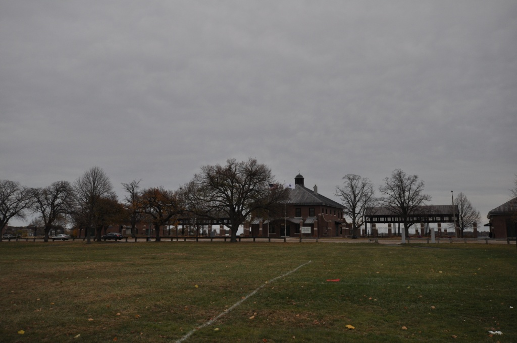 Moakley Park, Day Boulevard and the McCormack Bath House, Boston, Massachusetts